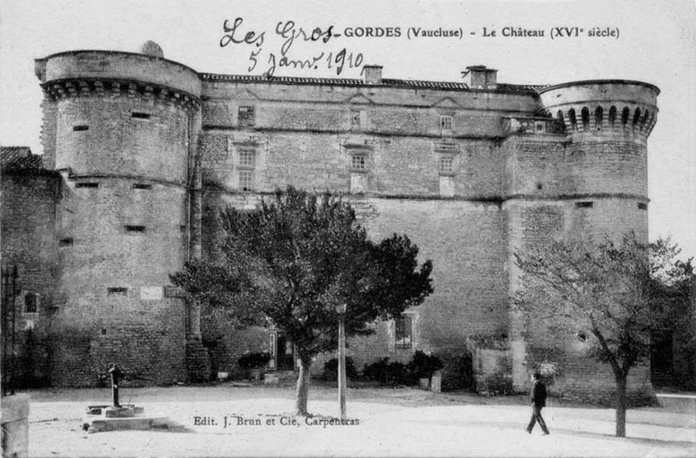 Northern side of Gordes, Vaucluse castle in the first decade of the 20th century.